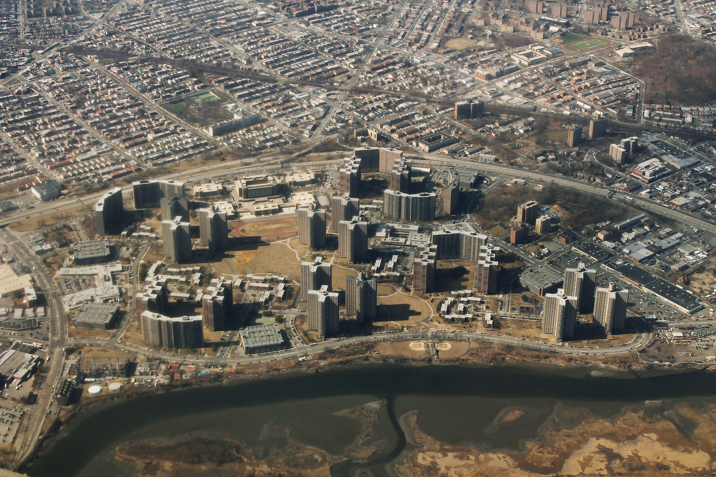 Co-Op City, Bronx